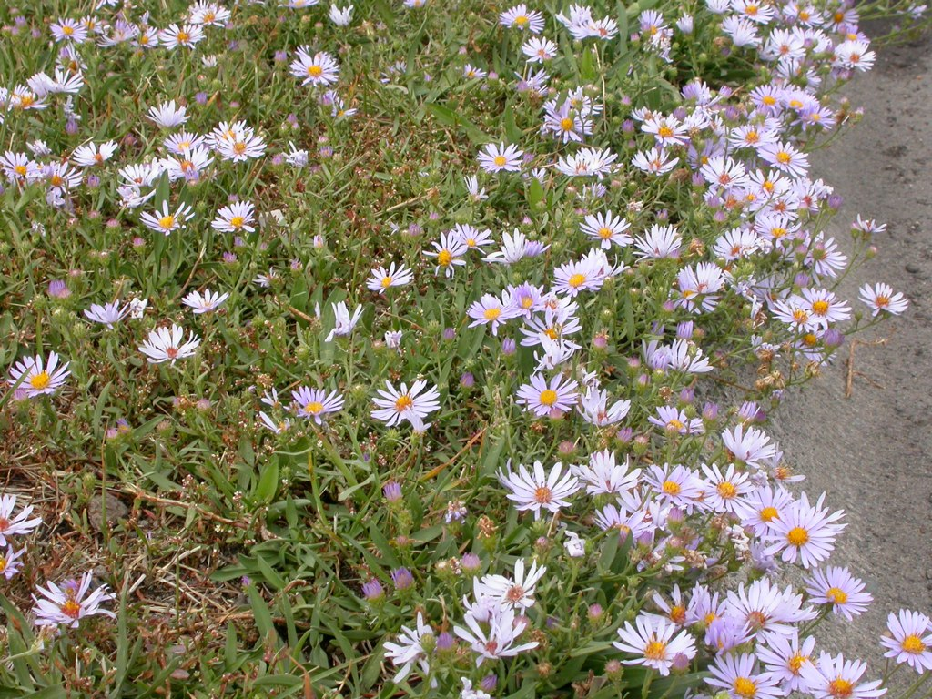 The habitat typically involves disturbed setting including in town along sidewalks. This mowed patch at the margin of a lawn thrives in mat-forming condition. Regardless of disturbance regime, Aster ascendens produces more stem than basal leaves.